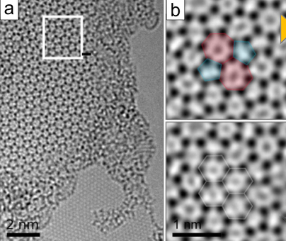 (a) Overview image of a disordered area of HBS. (b) Higher magnification image of the area marked in panel (a).